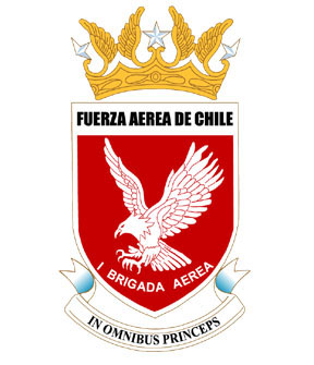 1st Aviation Brigade FACH